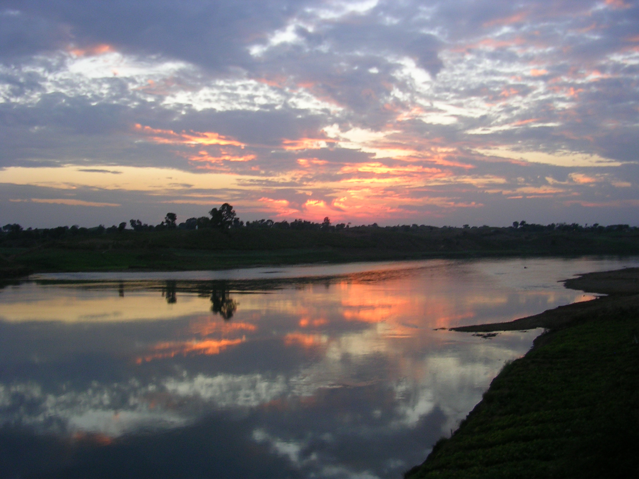 JhansiGhat